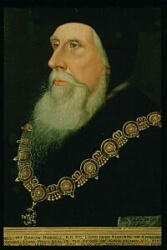 After Hans Holbein the Younger, John Russell, 16th century.